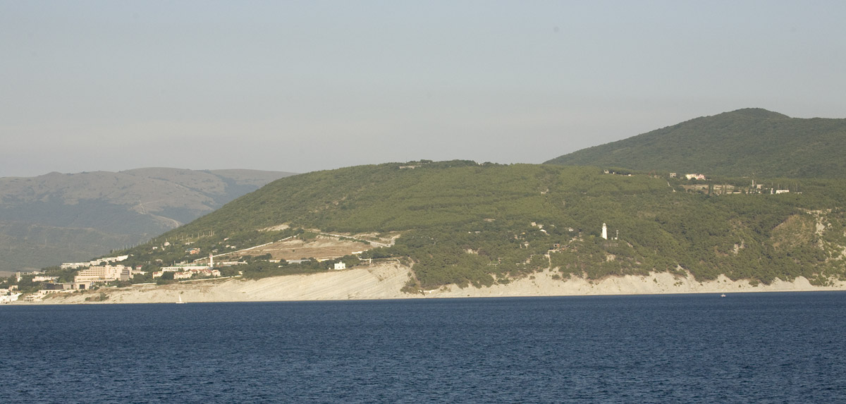 Cape Doob lighthouse, Russia, Black sea, Novorossiysk.